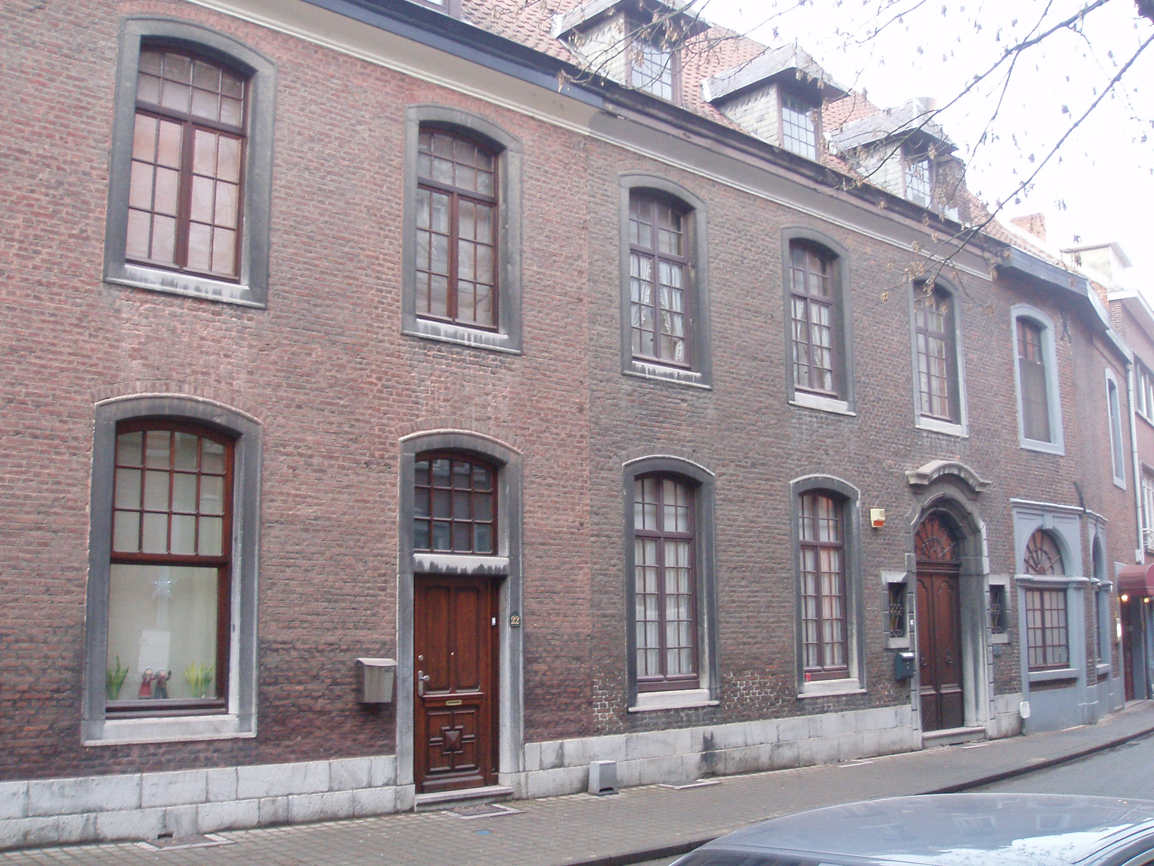 Sint-Truiden Alexian monastery